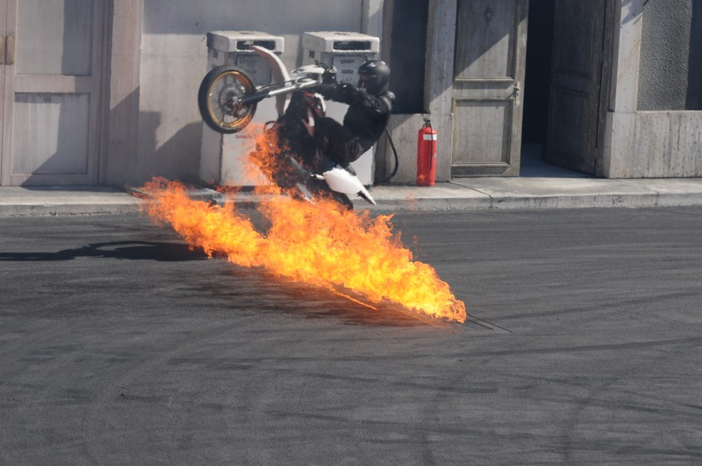 Motorbike driving through fire at Hollywood Stunt Driver, Warner Bros. Movie World.